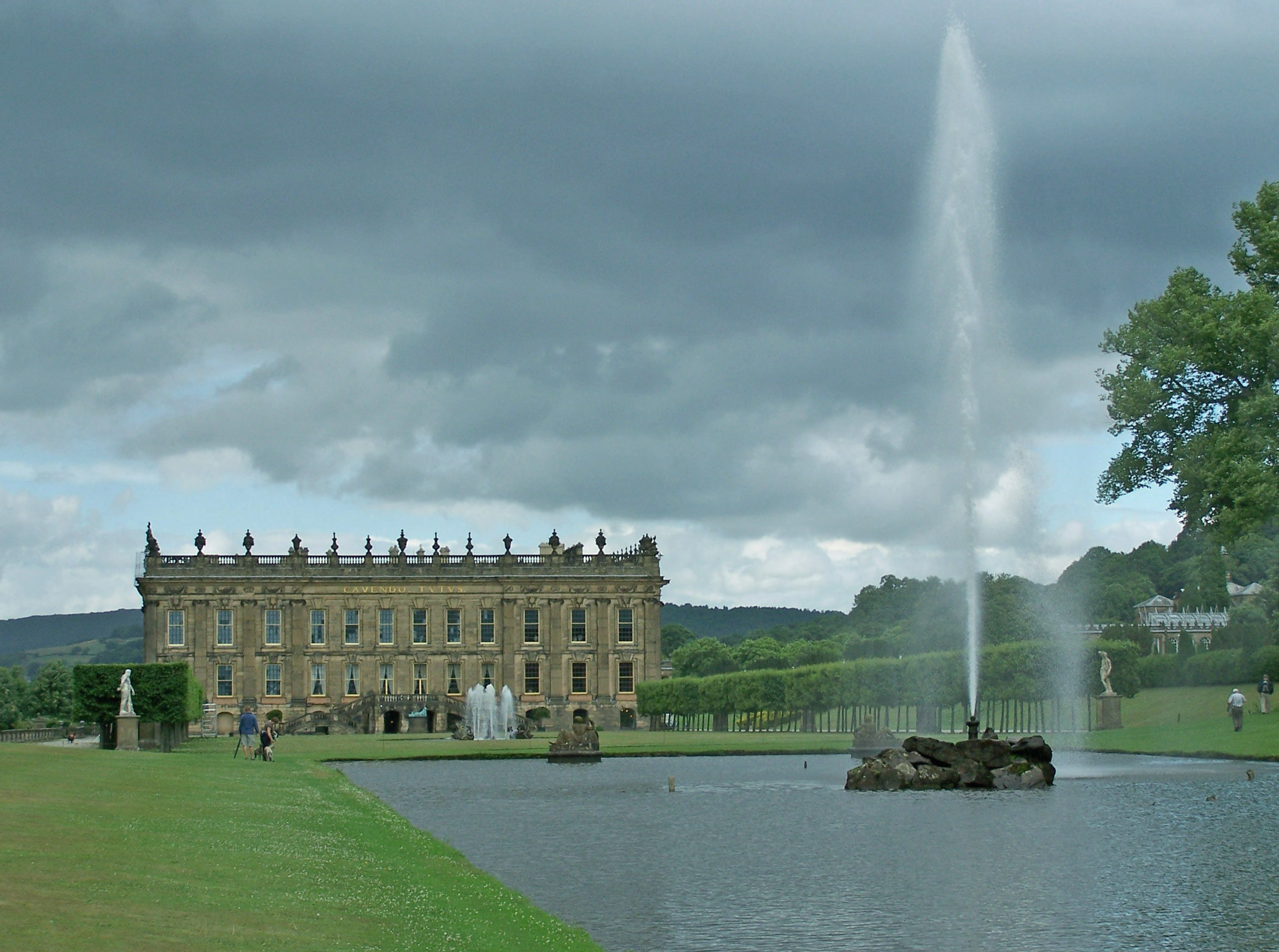 CHATSWORTH HOUSE Wikidata has entry Q1068289 with data related to this building.